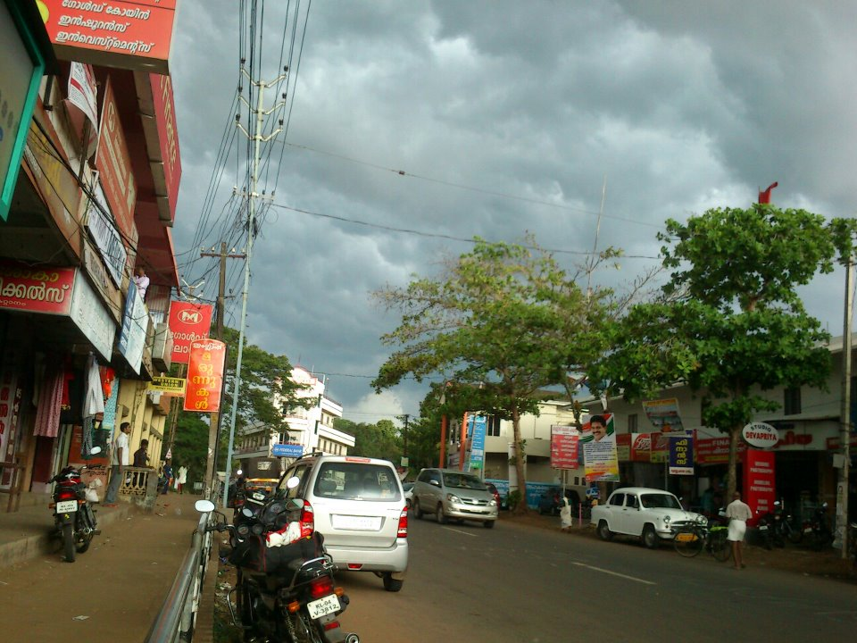 The image was took by Bibin George Joseph. The image shows the town of Kattanam in a July evening in the year 2011.